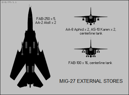 2-view silhouettes of the Mikoyan-Gurevich MiG-27 showing external stores